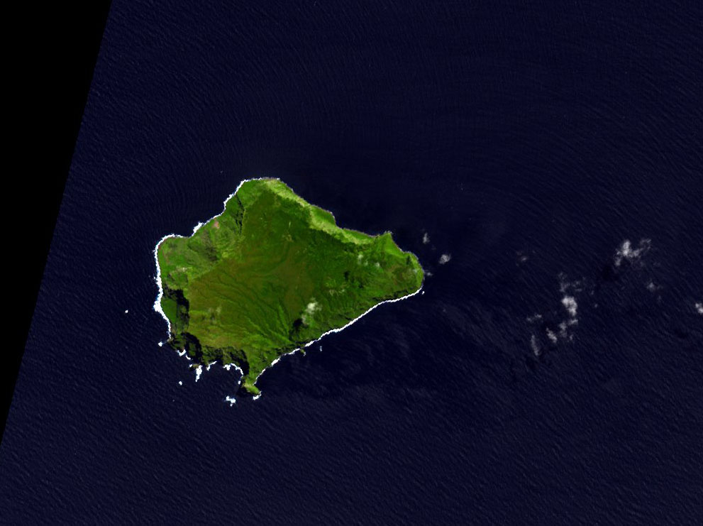 NASA Terra ASTER image of Inaccessible Island, Tristan da Cunha, South Atlantic Ocean